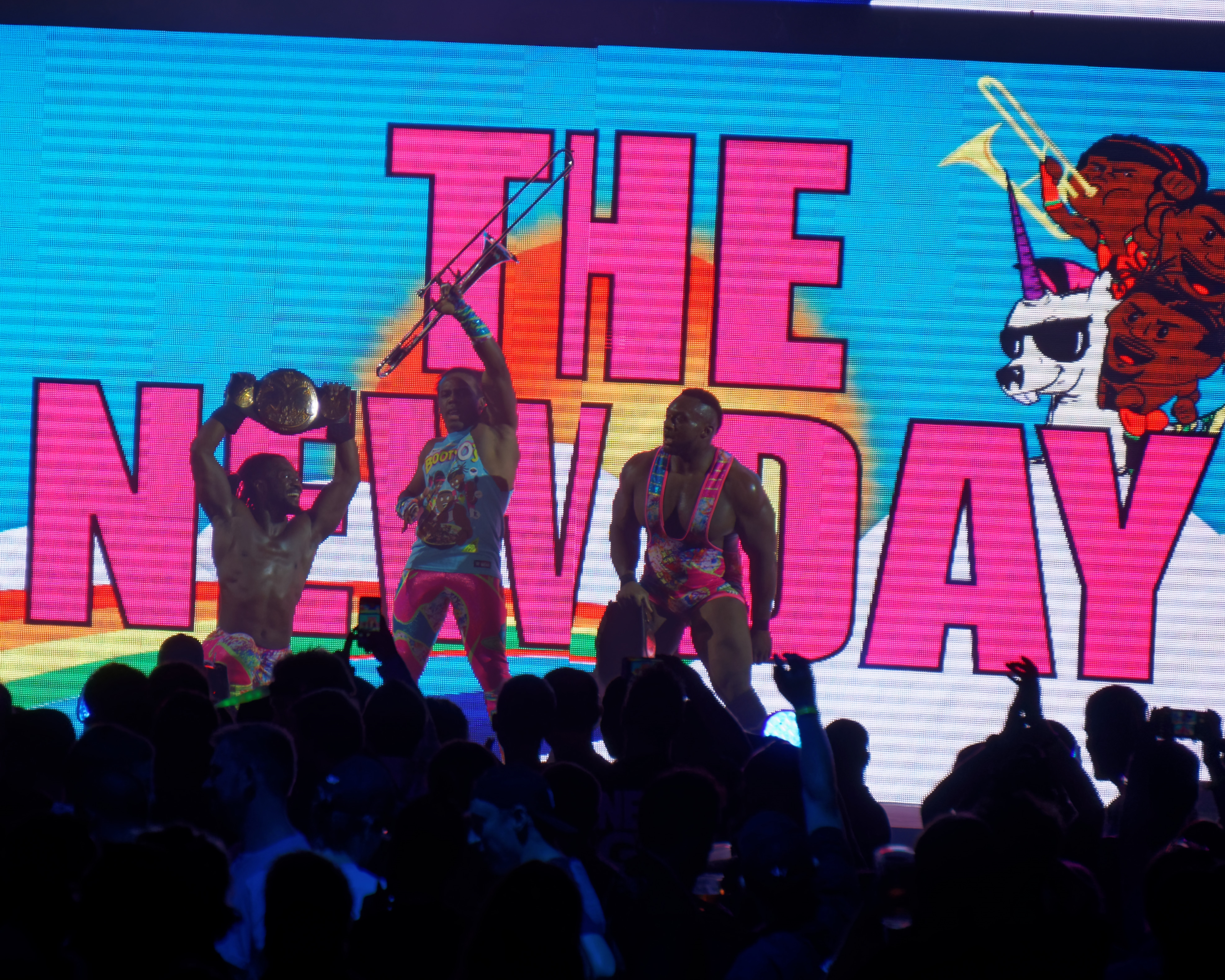 The New Day making the entrance in September 2016